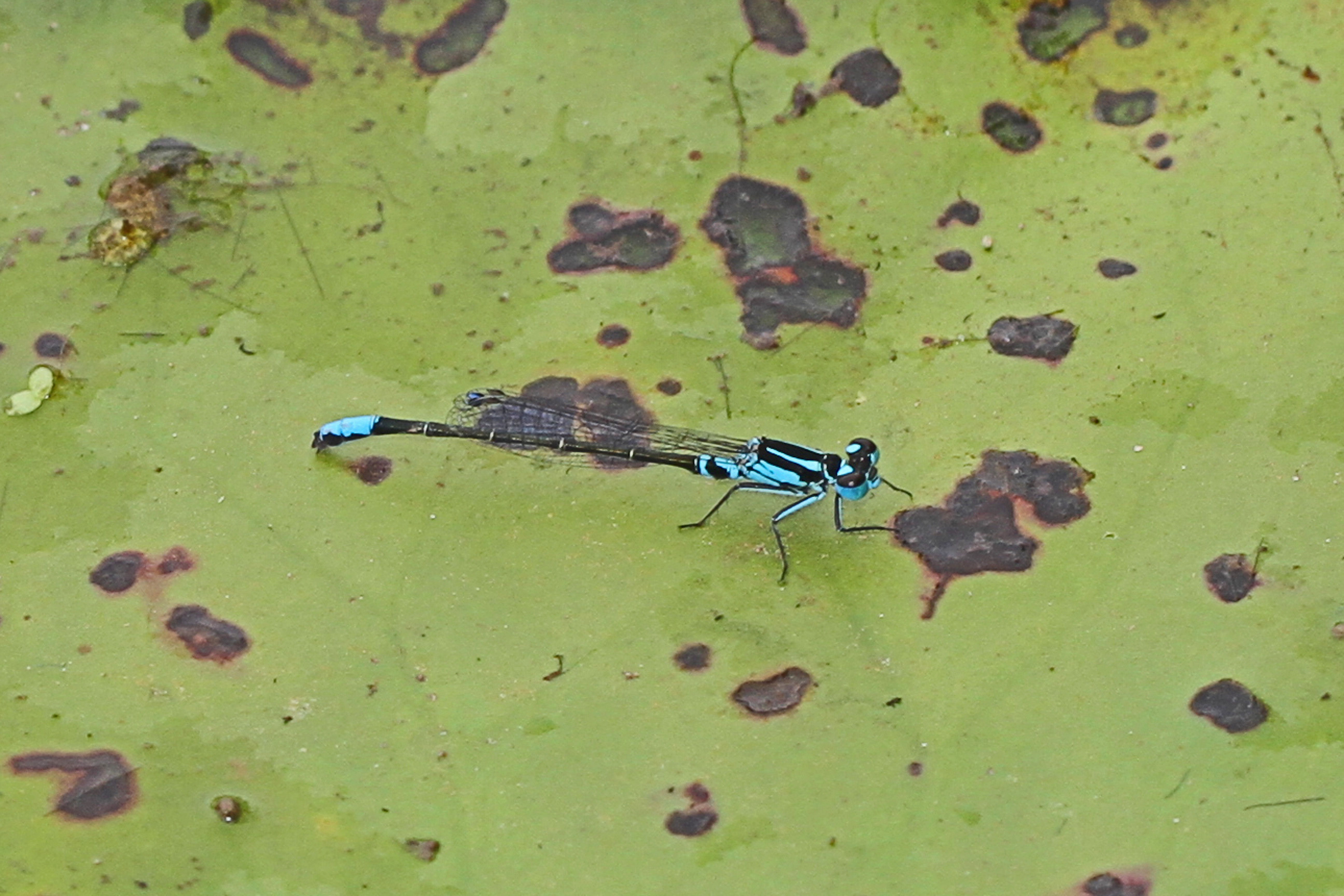 Lilypad Forktail - Ischnura kellicotti, Kenilworth Aquatic Gardens, Washington, D.C.